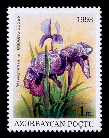 Stamp of Azerbaijan